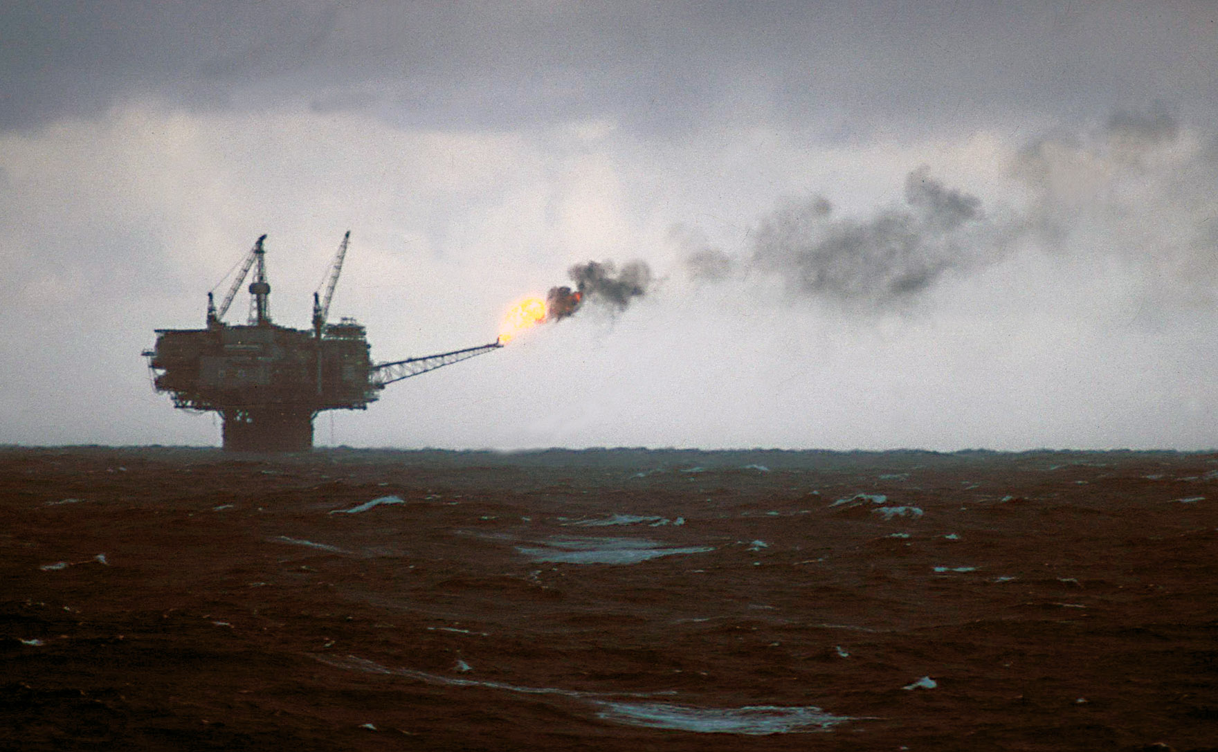 Offshore oil plattform in the North Sea